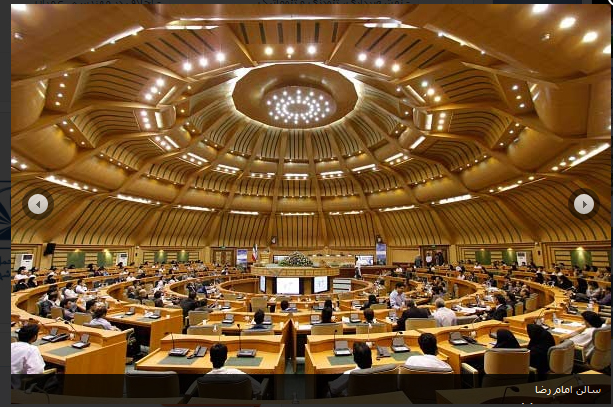 University of Sistan and Baluchestan Emam Reza Square